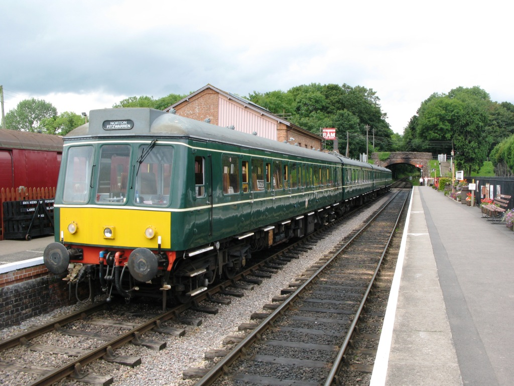 A DMU stands at Bishops Lydeard with a train for Norton Fitzwarren on the West Somerset Railway, England. 51880 is the leading car.